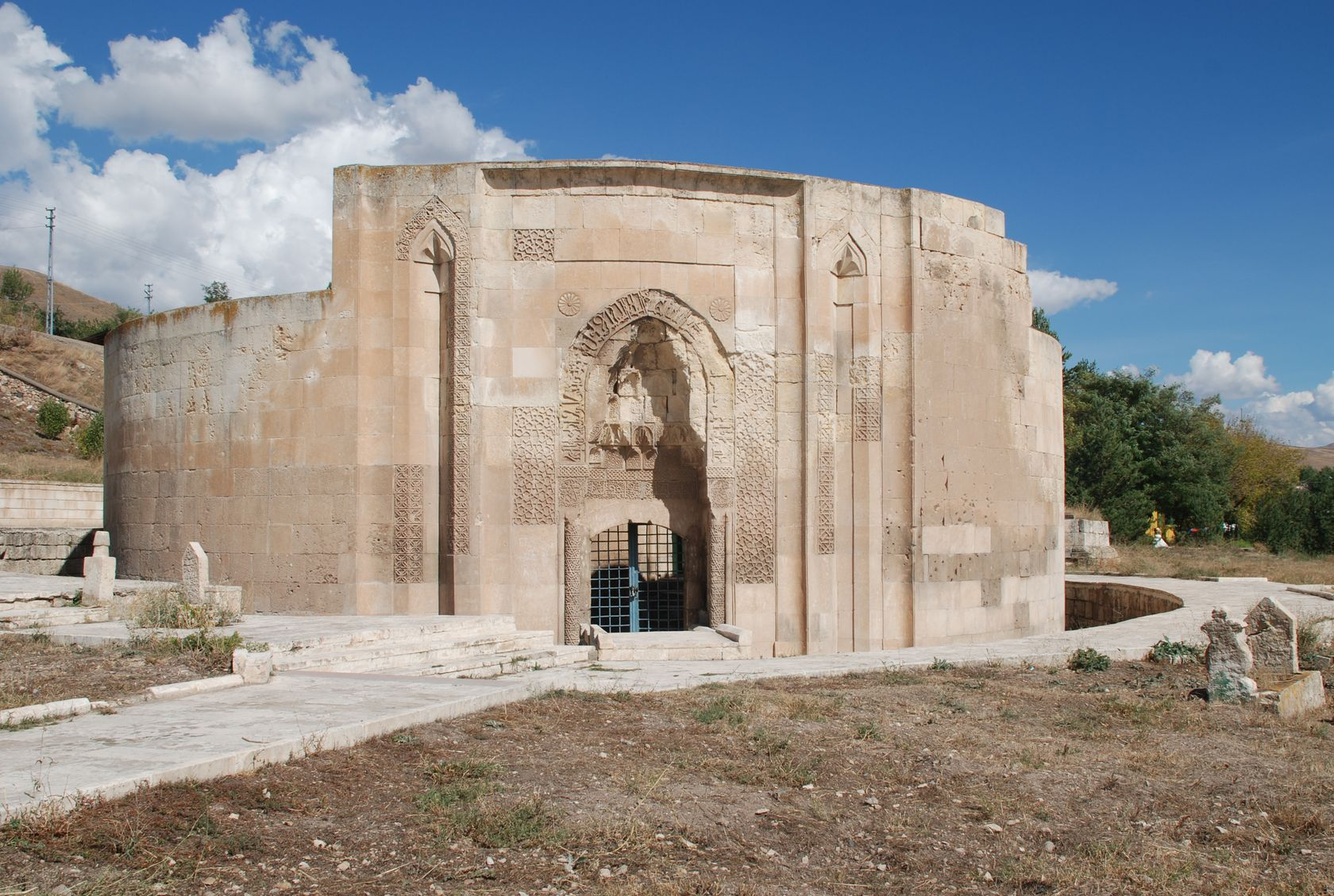 Tercan, Turkey, Türbe, Mama Hatun Kümbeti